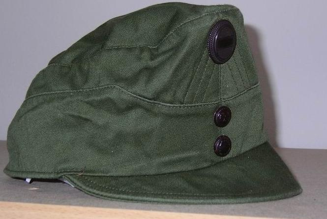 Hungarian army fatigue cap ("Bocskai")